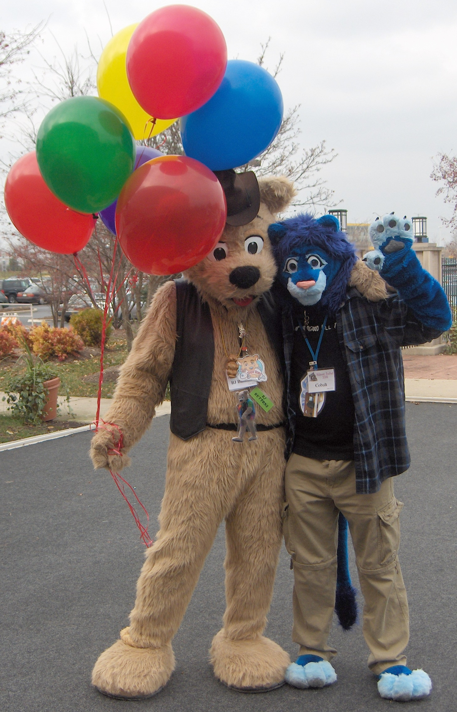 Fursuiters BJ Buttons and Cobalt pose, with balloons, after the Midwest FurFest 2006 fursuit parade.